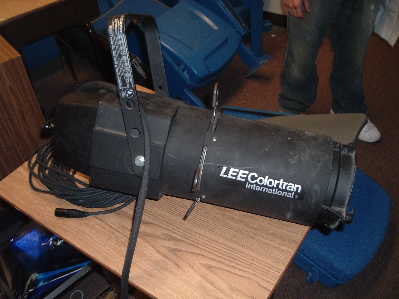 A Colortran ERSen:Lekolite. Photo by KeepOnTruckin.